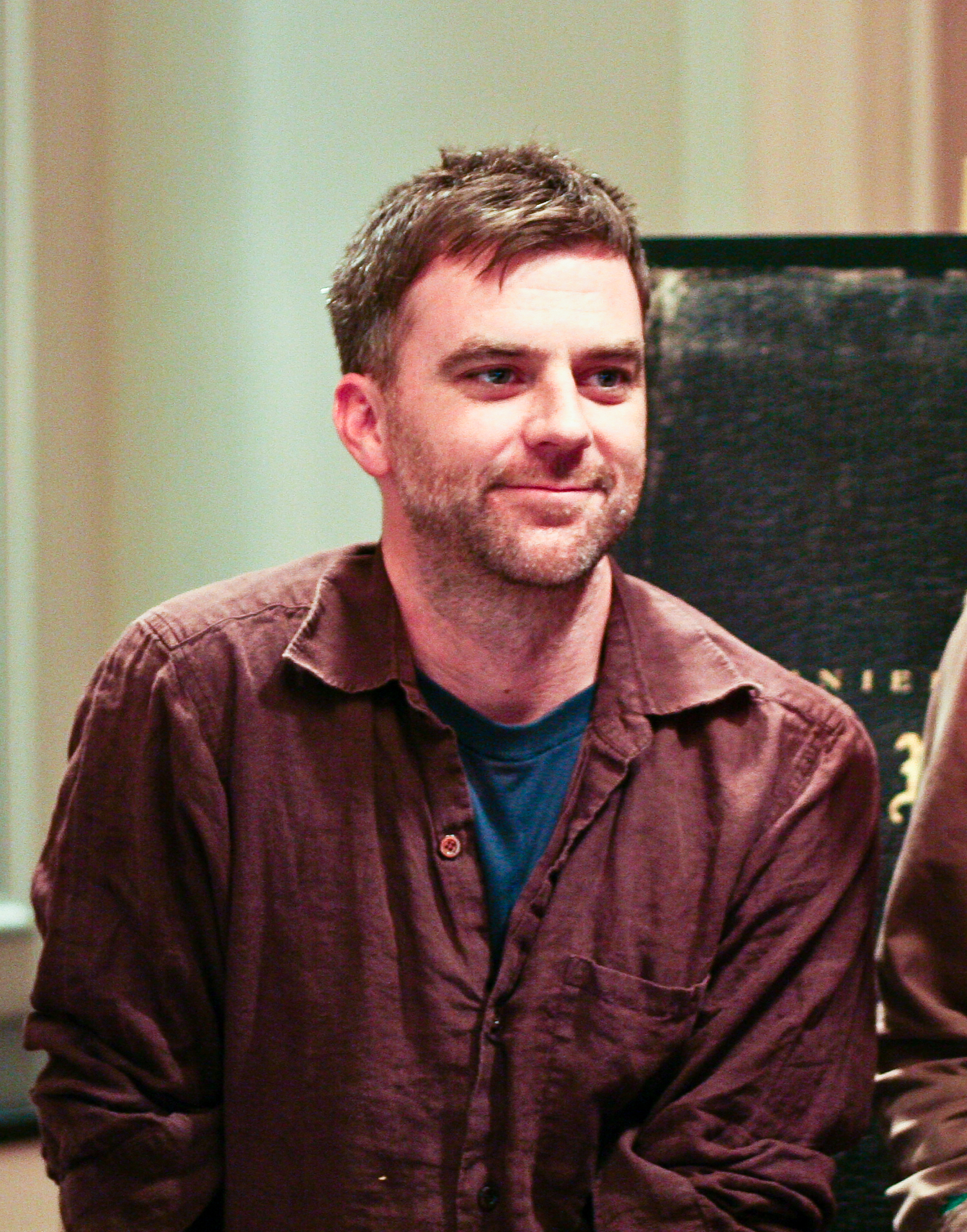 Director Paul Thomas Anderson in New York on december 10, 2007